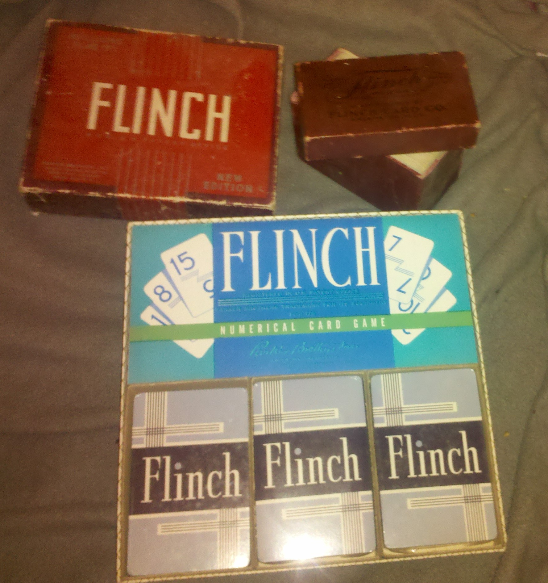 The Game Flinch has remade itself over the years, here are three discontinued editions